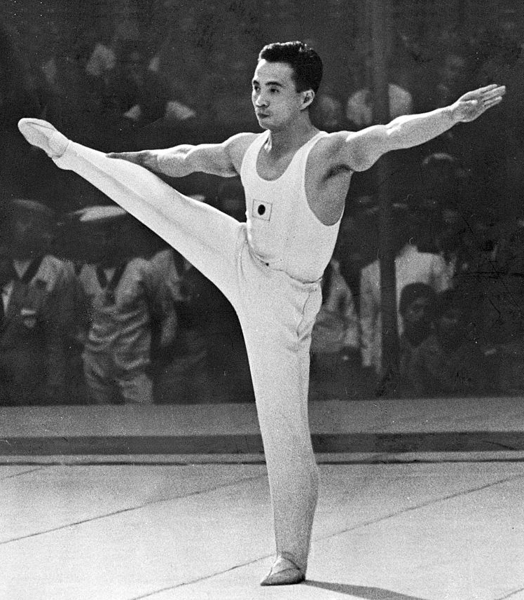 Nobuyuki Aihara of Japan competes in the Floor of the Artistic Gymnastics during the Rome Summer Olympic Games at Baths of Caracalla in September 1960 in Rome, Italy.